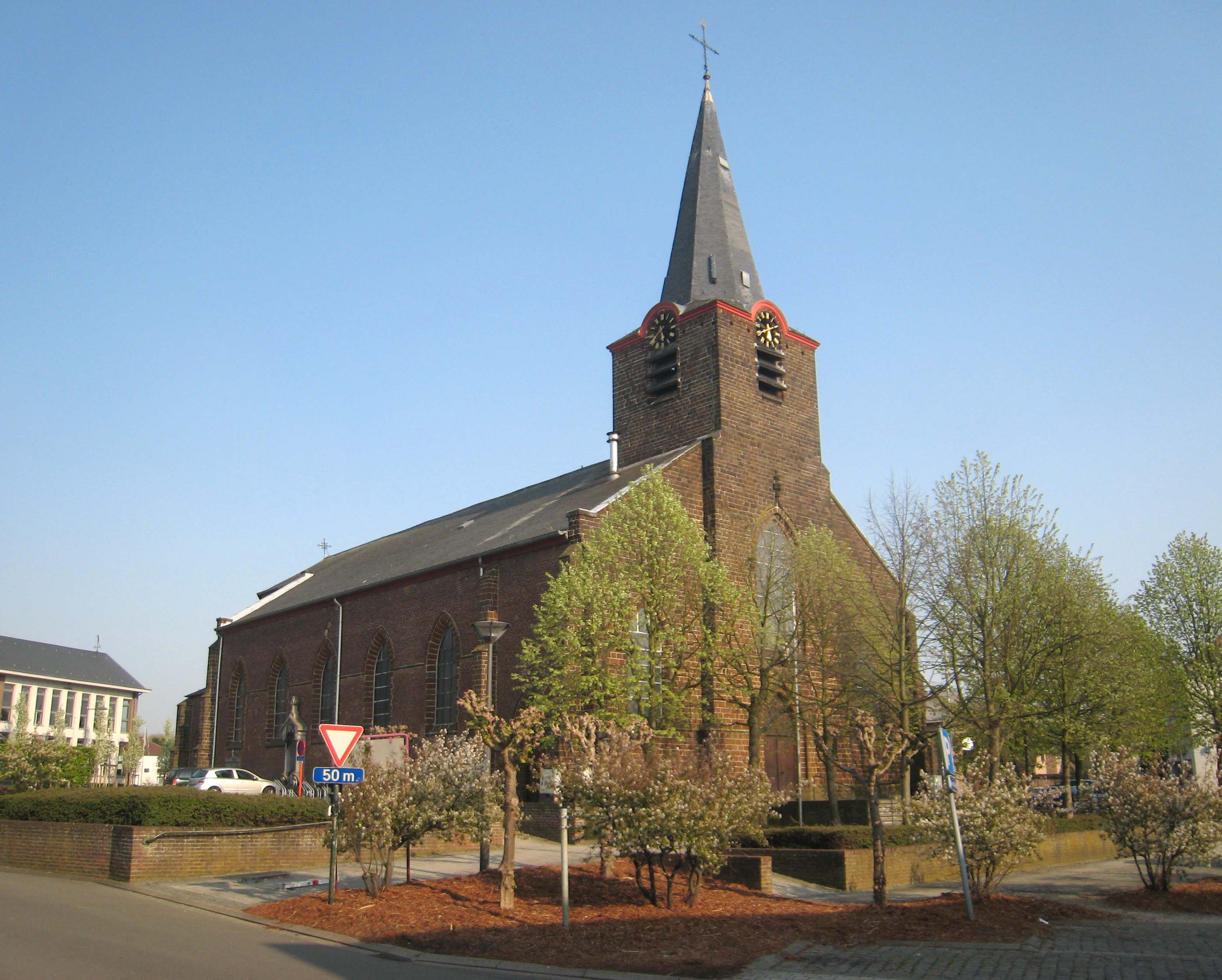 Church in the centre of Rotselaar